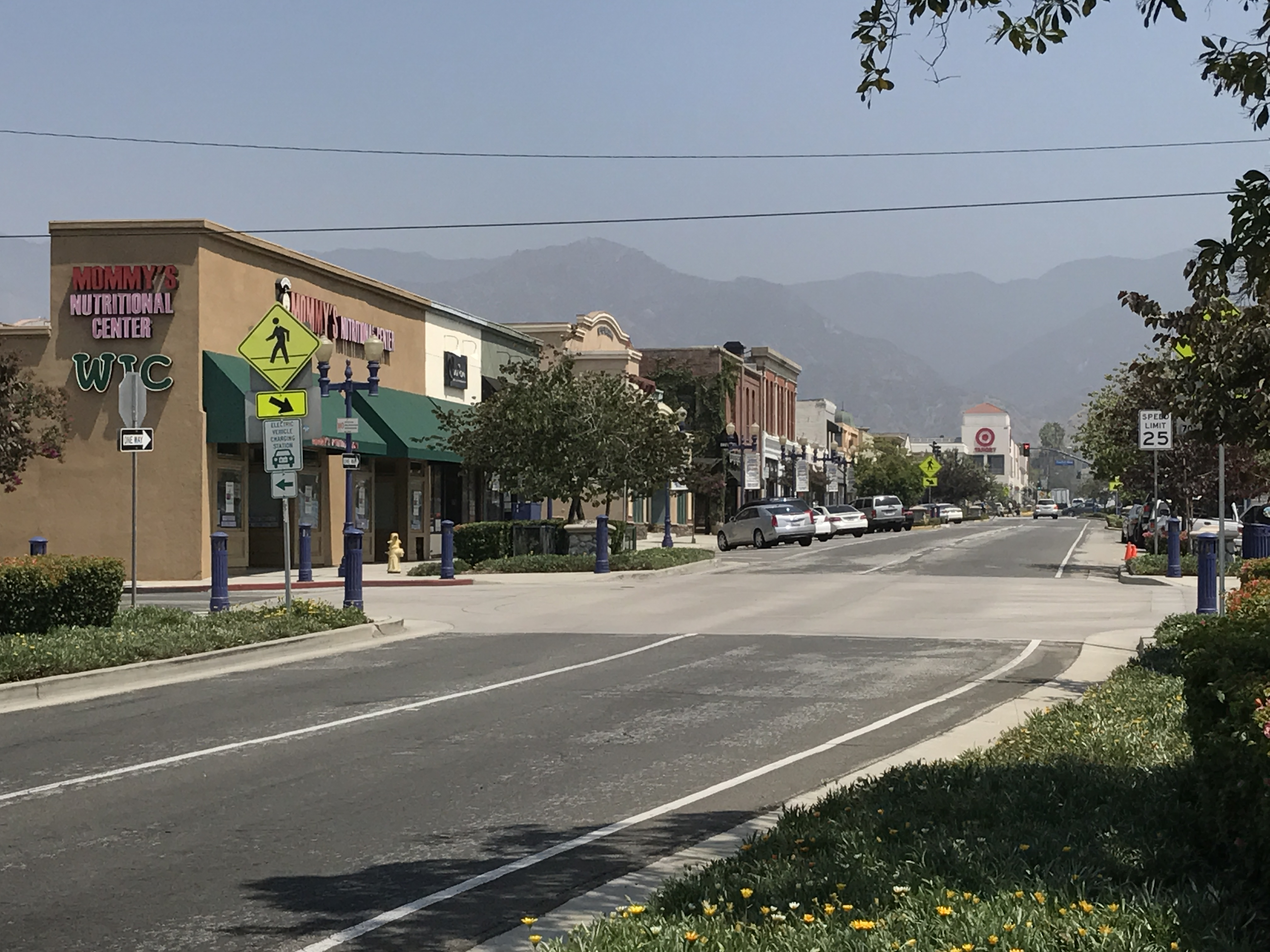 Downtown Azusa